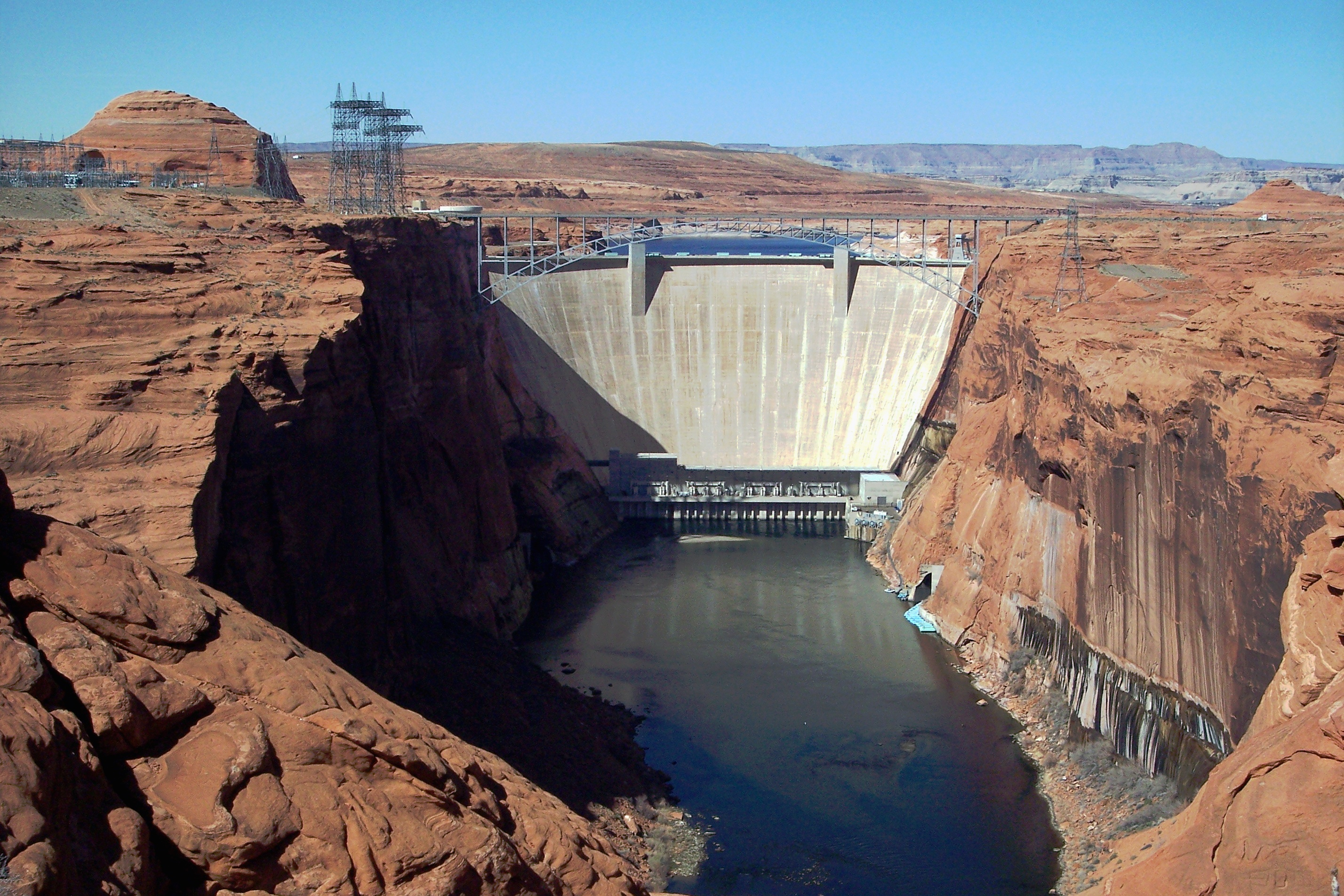 Glen Canyon Dam, substation (left) and bridge (in front of the dam) as seen from the south, near Page, Arizona, USA